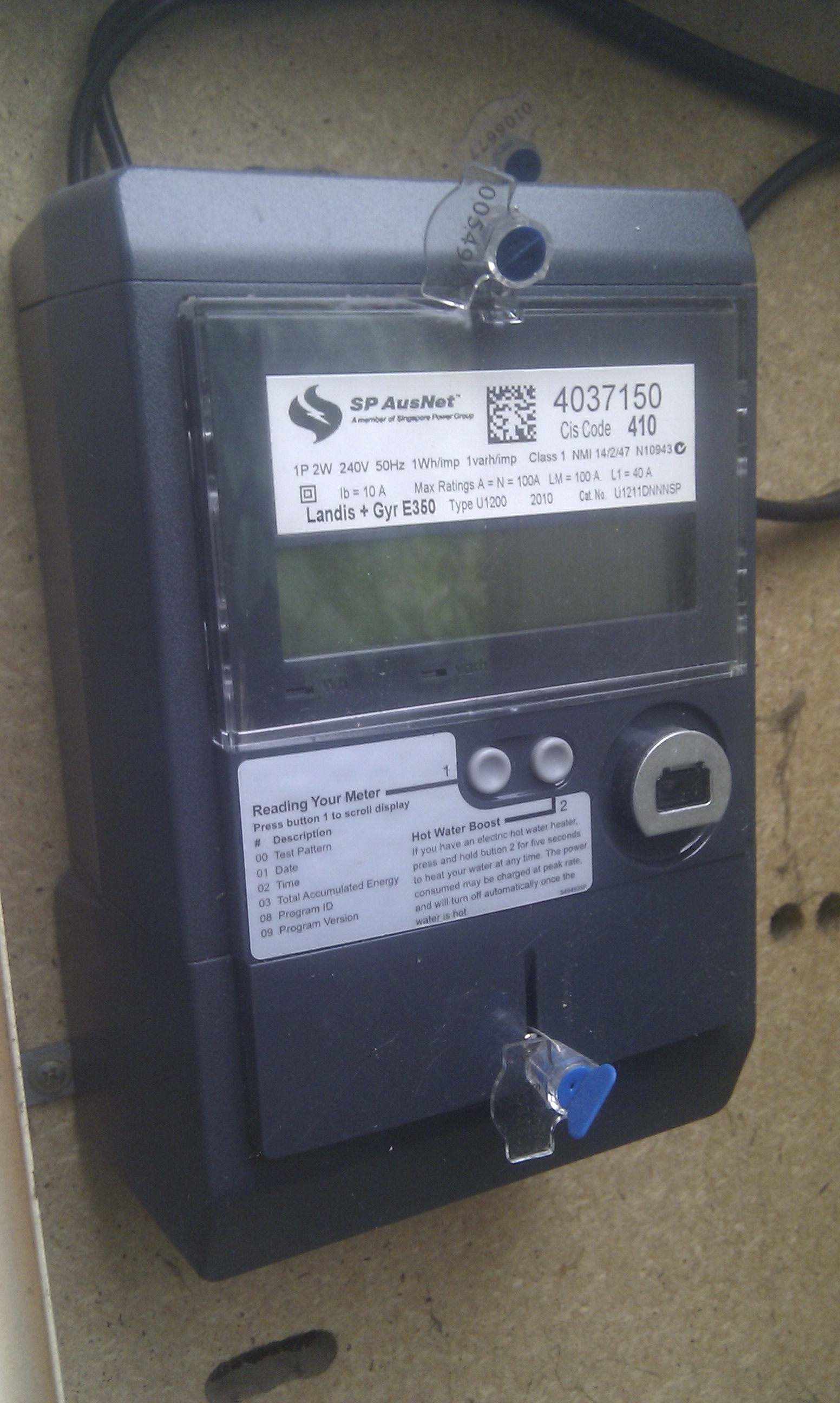 A electrical 'smart' meter installed in a Victorian, Australian home. Issued by SP Ausnet.